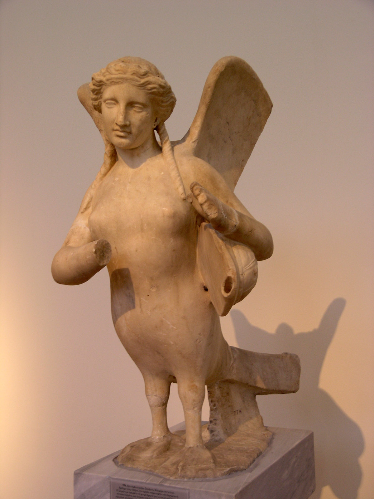 Funerary statue of a siren in Pentelic marble, found in the Necropolis of Ceramics at Athens. The siren laments the dead, wings folded, playing on a tortoiseshell lyre. The right hand, which would have held the plectrum, is missing. The strings, probably made of bronze, would have been attached to the holes which can be seen in the body of the instrument. The plumage and other parts would have been picked out in colour. The statue flanked the stele of the Athenian warrior Dexileo who fell in combat in 394/393 BC (Work of 370BC, National Archeological Museum, Athens).